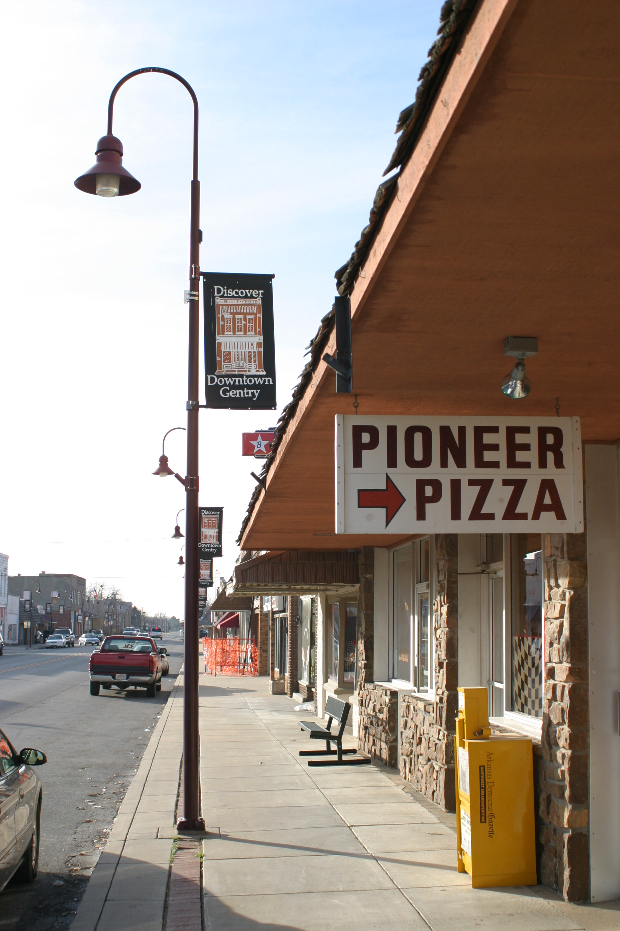 Main Street in Downtown Gentry, Arkansas, including the sign for well-known Pioneer Pizza restaurant